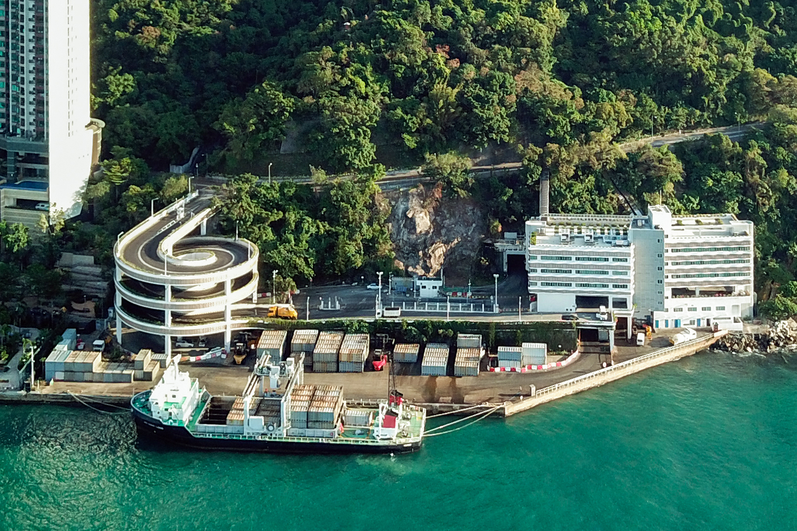 Island West Transfer Station, Kennedy Town